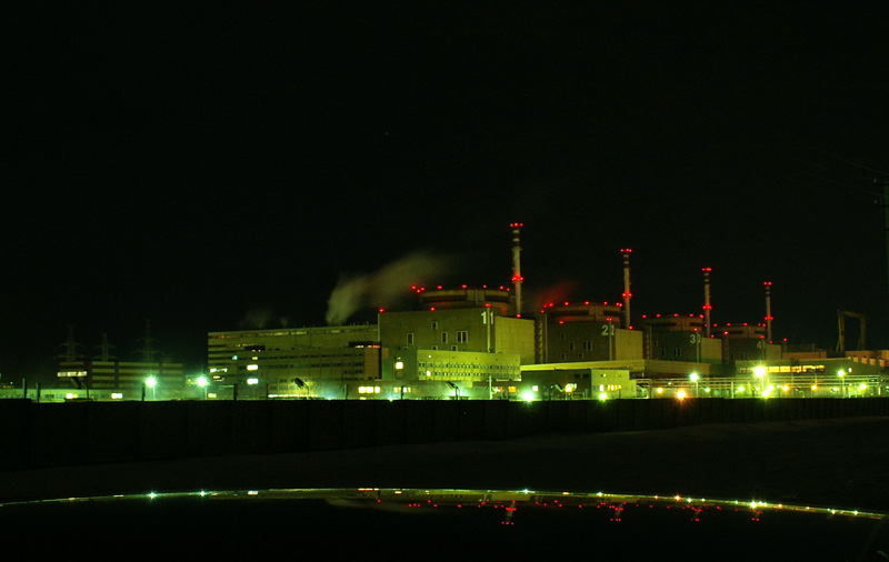 Balakovo Nuclear Power Plant by night, unit one to five